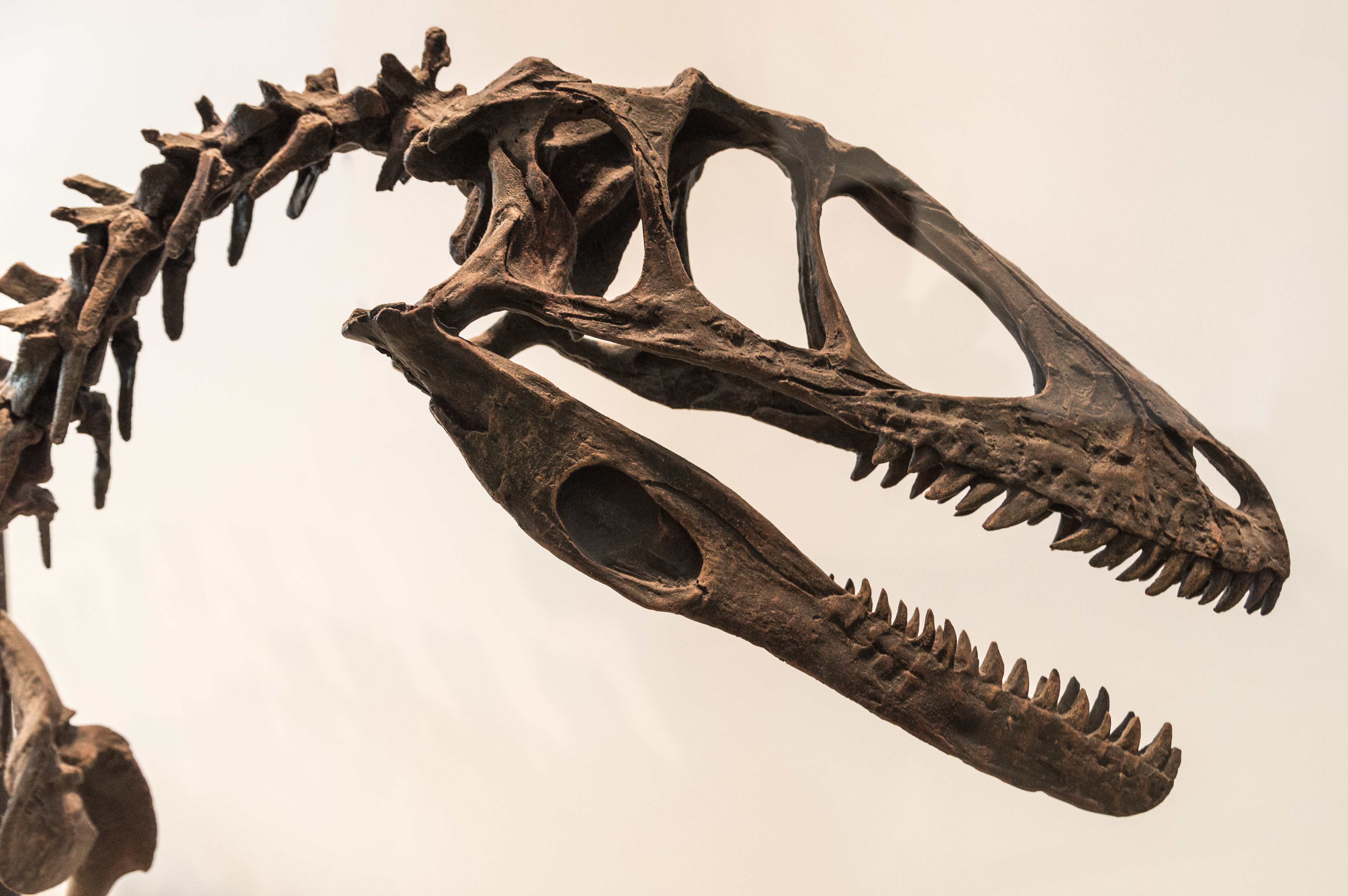 Rob Hurson - 33007351984